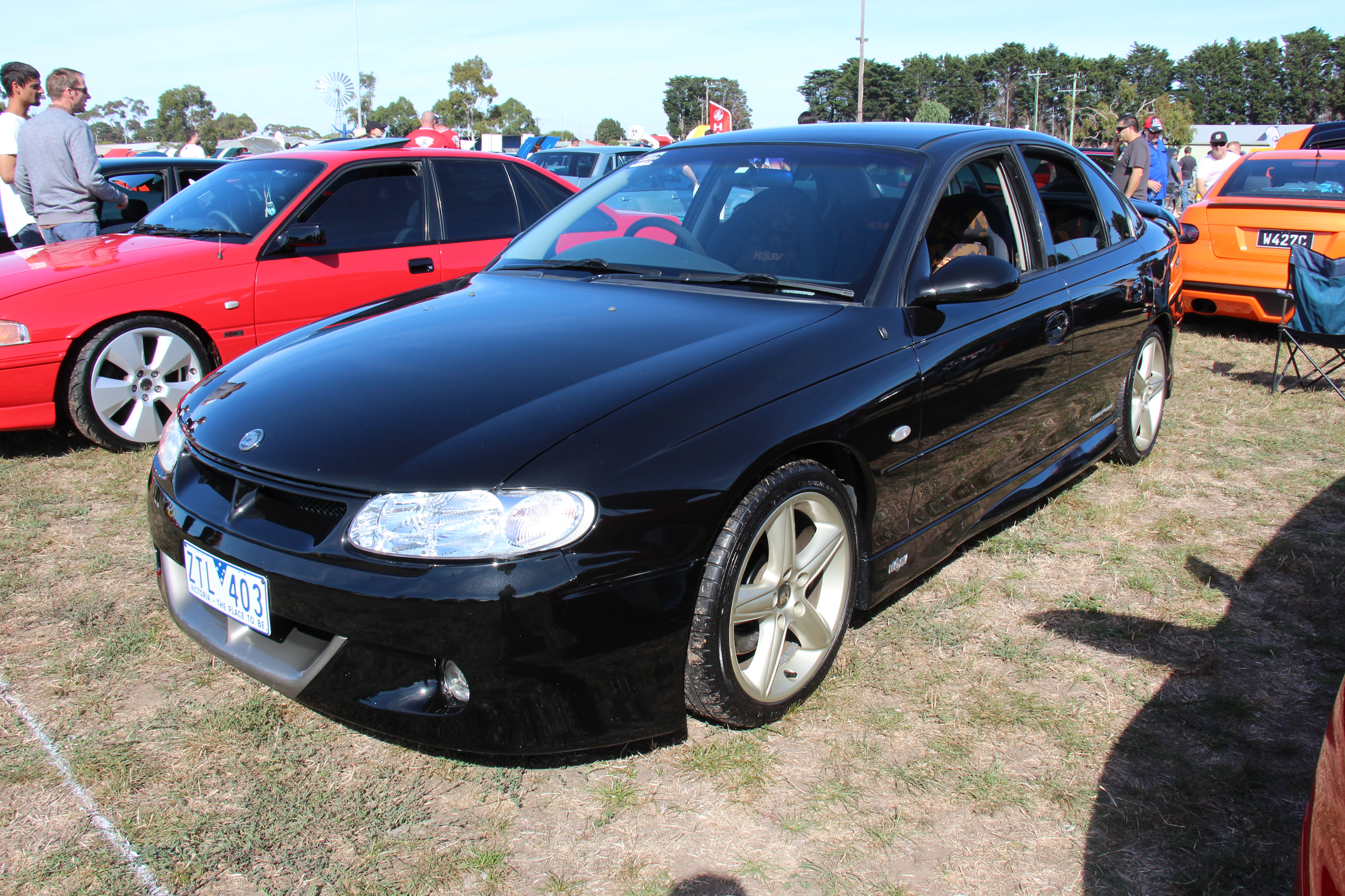 09/1999 Holden VT HSV Clubsport